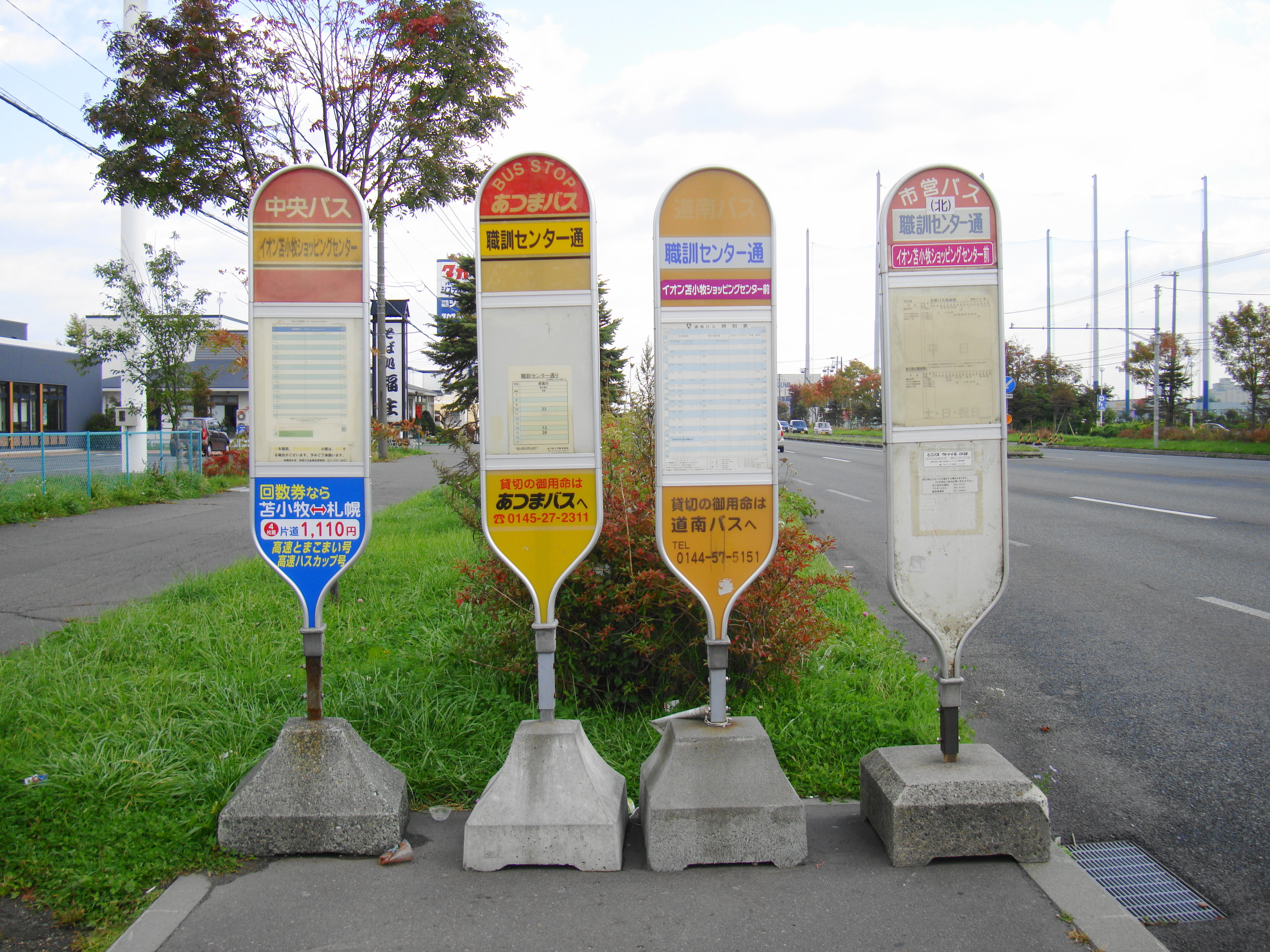 "Shokkun-center dōri, AEON Tomakomai shopping center" bus stop